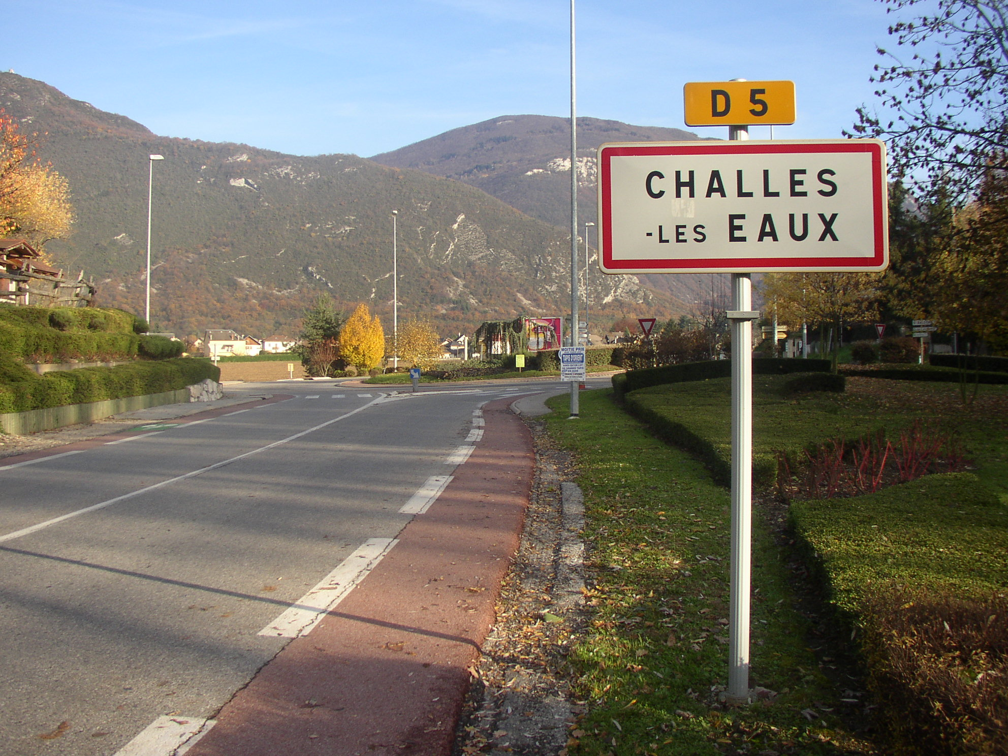 Sign welcoming visitors to the city of Challes-les-Eaux, near Chambéry in Savoie, France.